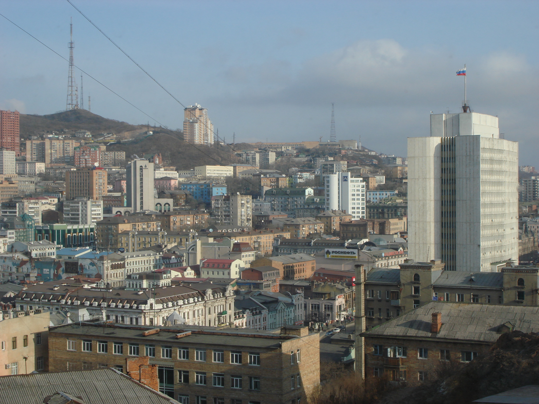 Vladivostok, Central District